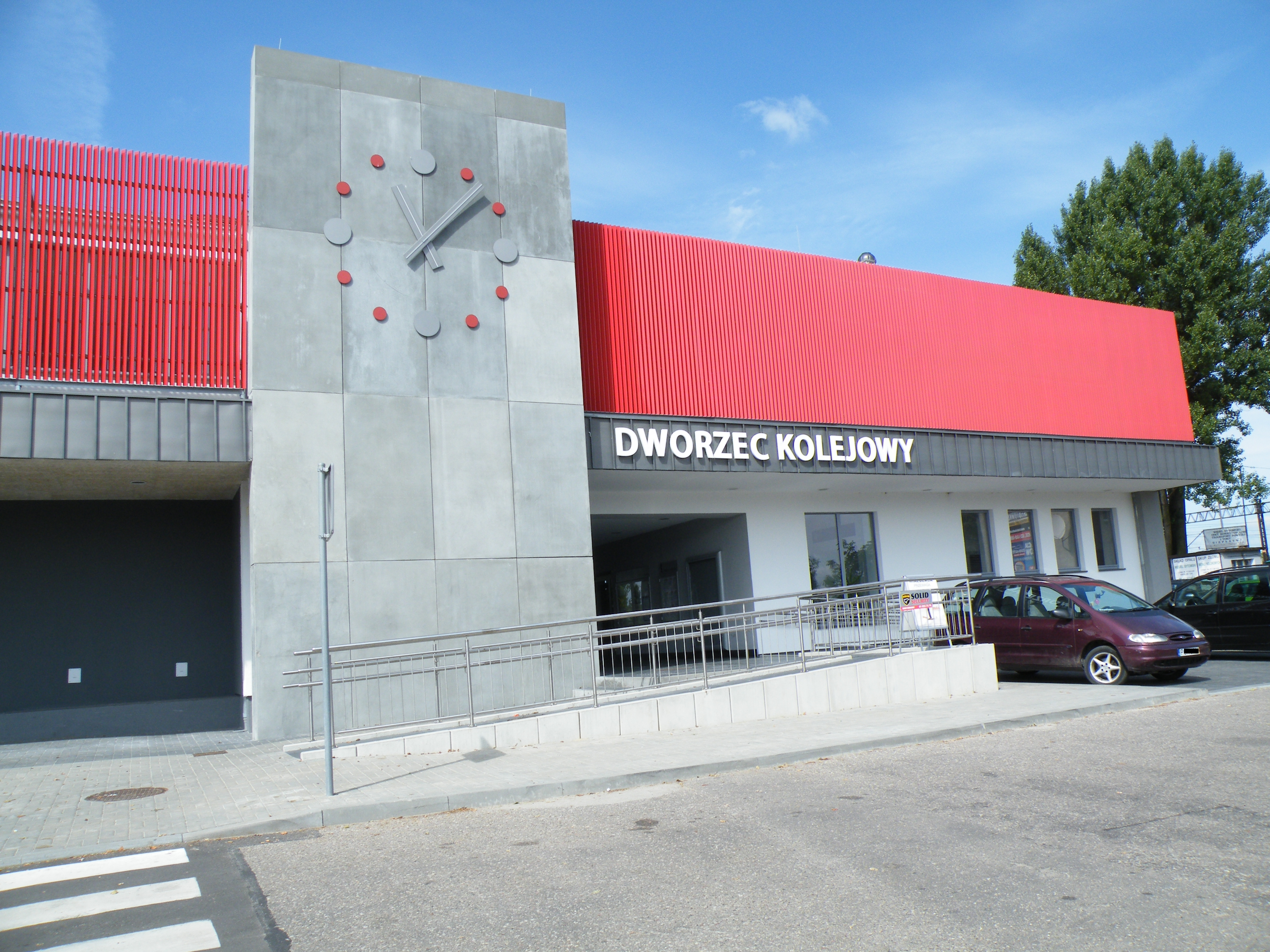 Chodzież train station